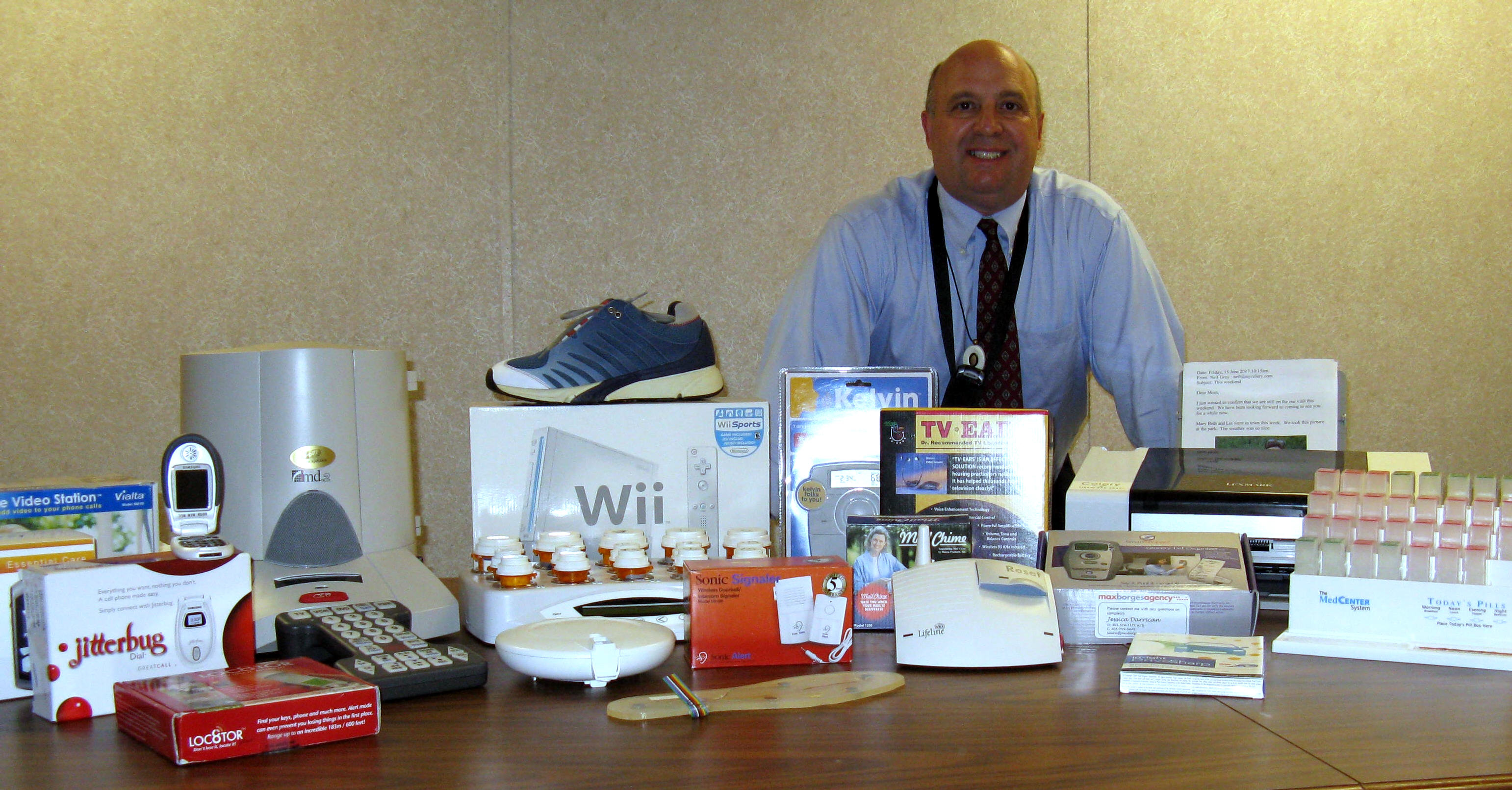 GMU, Dept of Health Administration & Policy, 2010